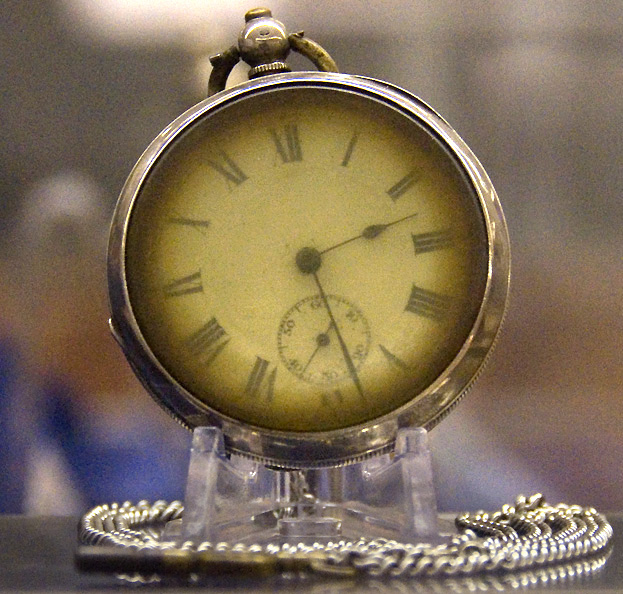 From a Titanic exhibition at Southampton - a retrieved fob watch from an unknown passenger, that had stopped at the approximate time that the ship went down on that fateful night on April 15 1912 at 02:20.